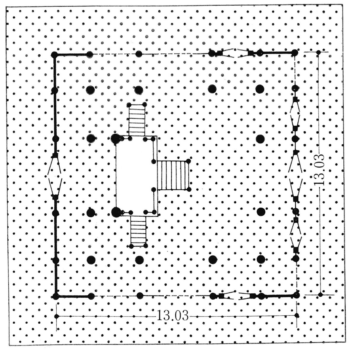 Zuiryu-ji Butsuden East-West oriented